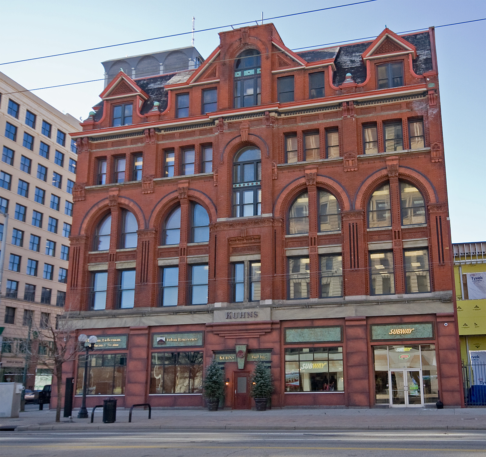 Kuhns Building in Dayton, OH. Photo by Greg Hume